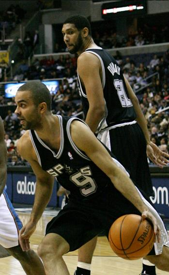 Cropped version of File:Tony parker spurs vs wizards.jpg